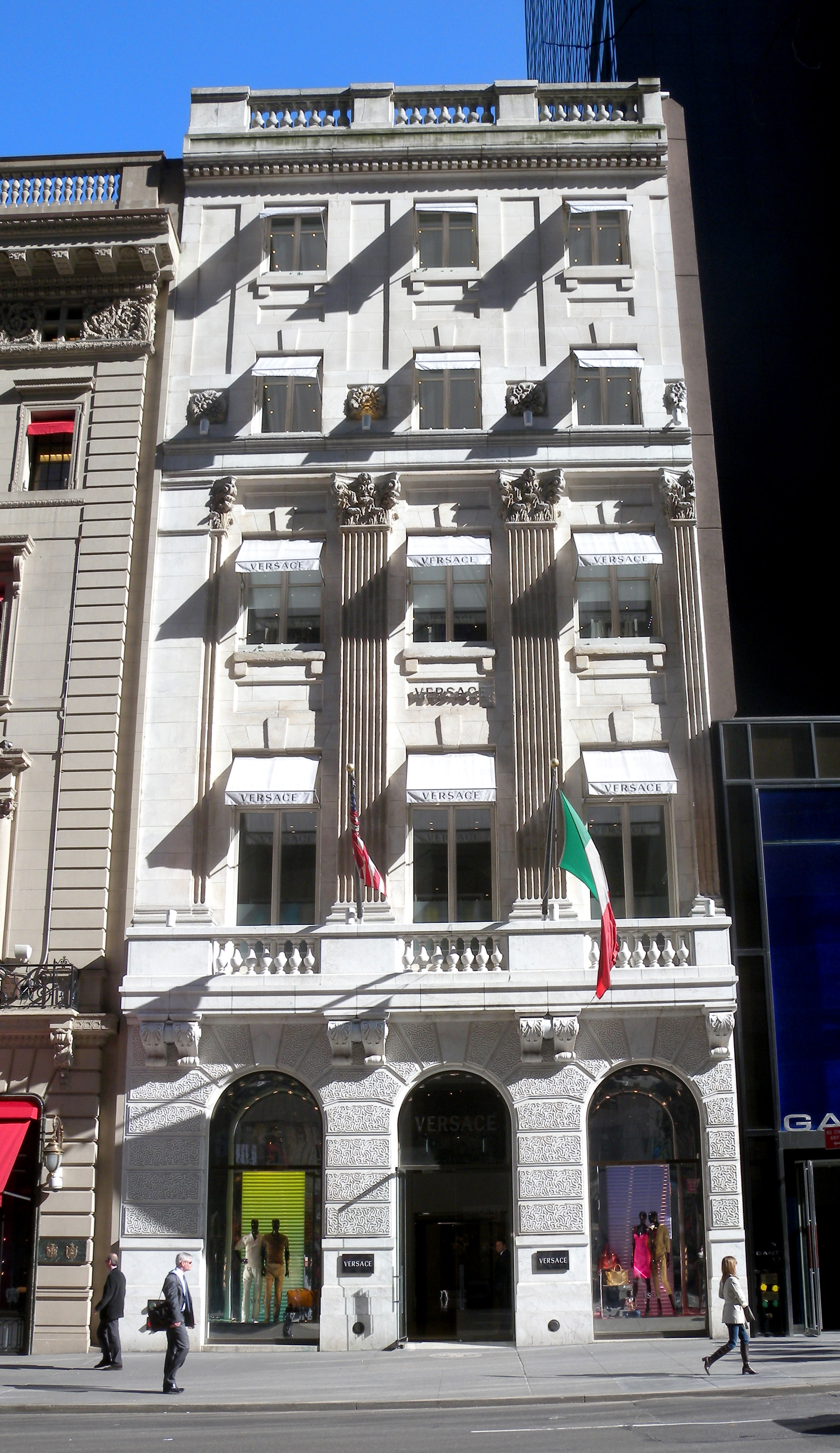 Looking east across 5th Av at Versace on a sunny afternoon.